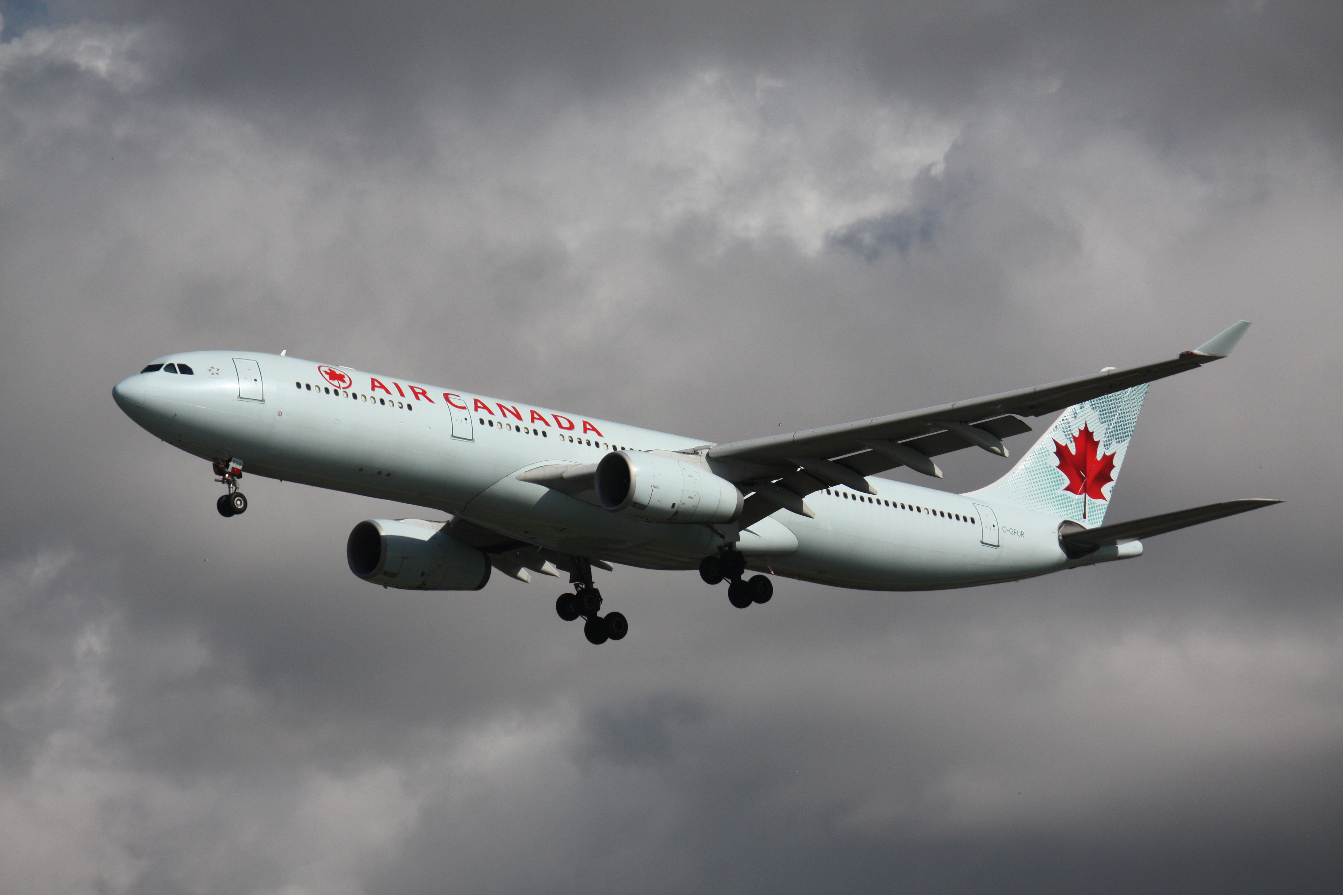 An Air Canada A330-343X landing at Vancouver International Airport